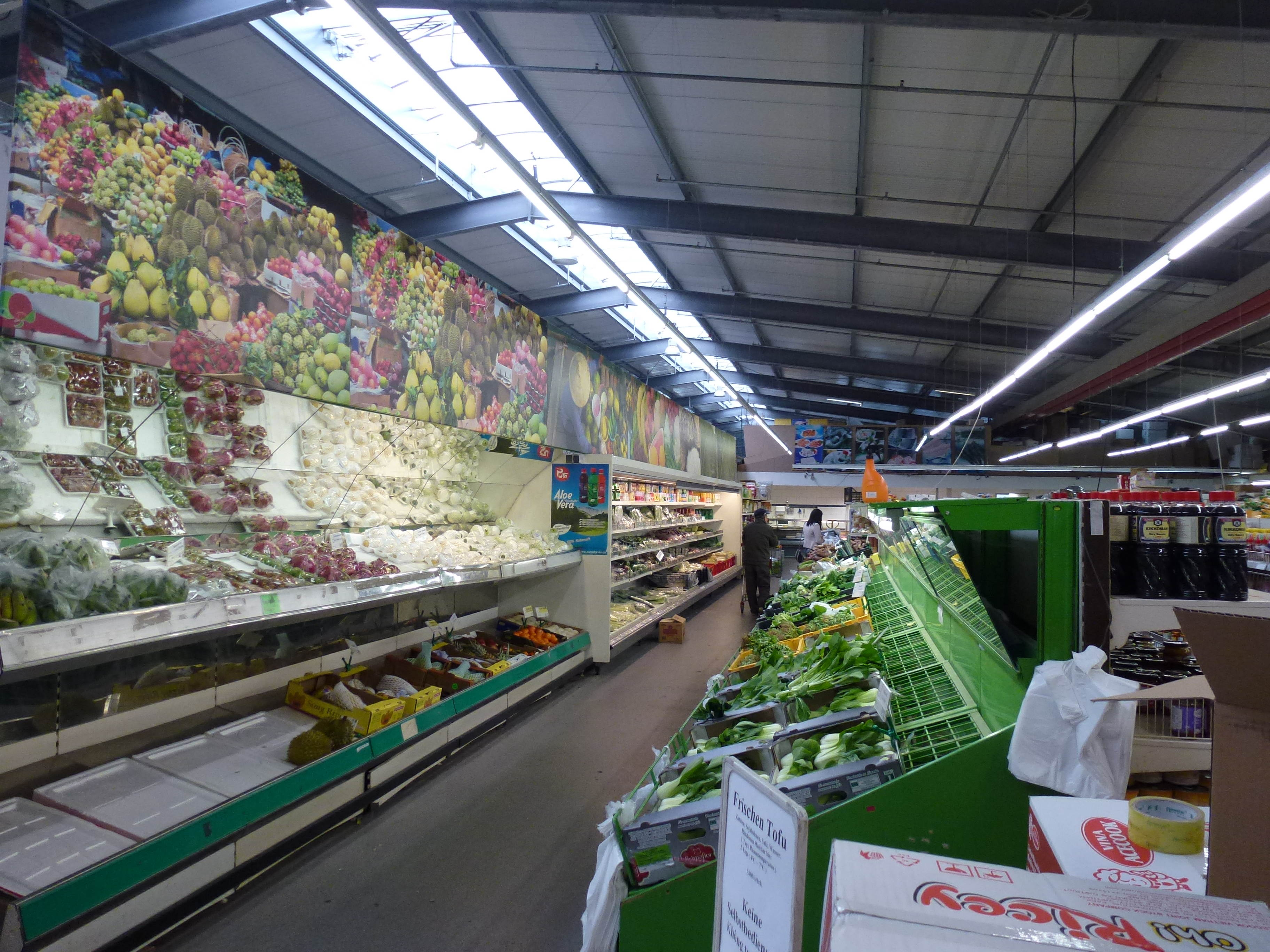 Berlin-Lichtenberg Dong Xuan Center